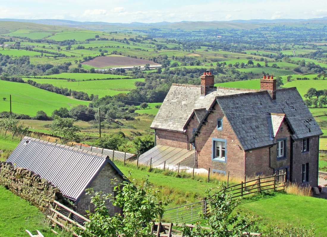 Barras station's closed site in 2016 with the surviving station master's house and passenger waiting shelter on the near westbound platform